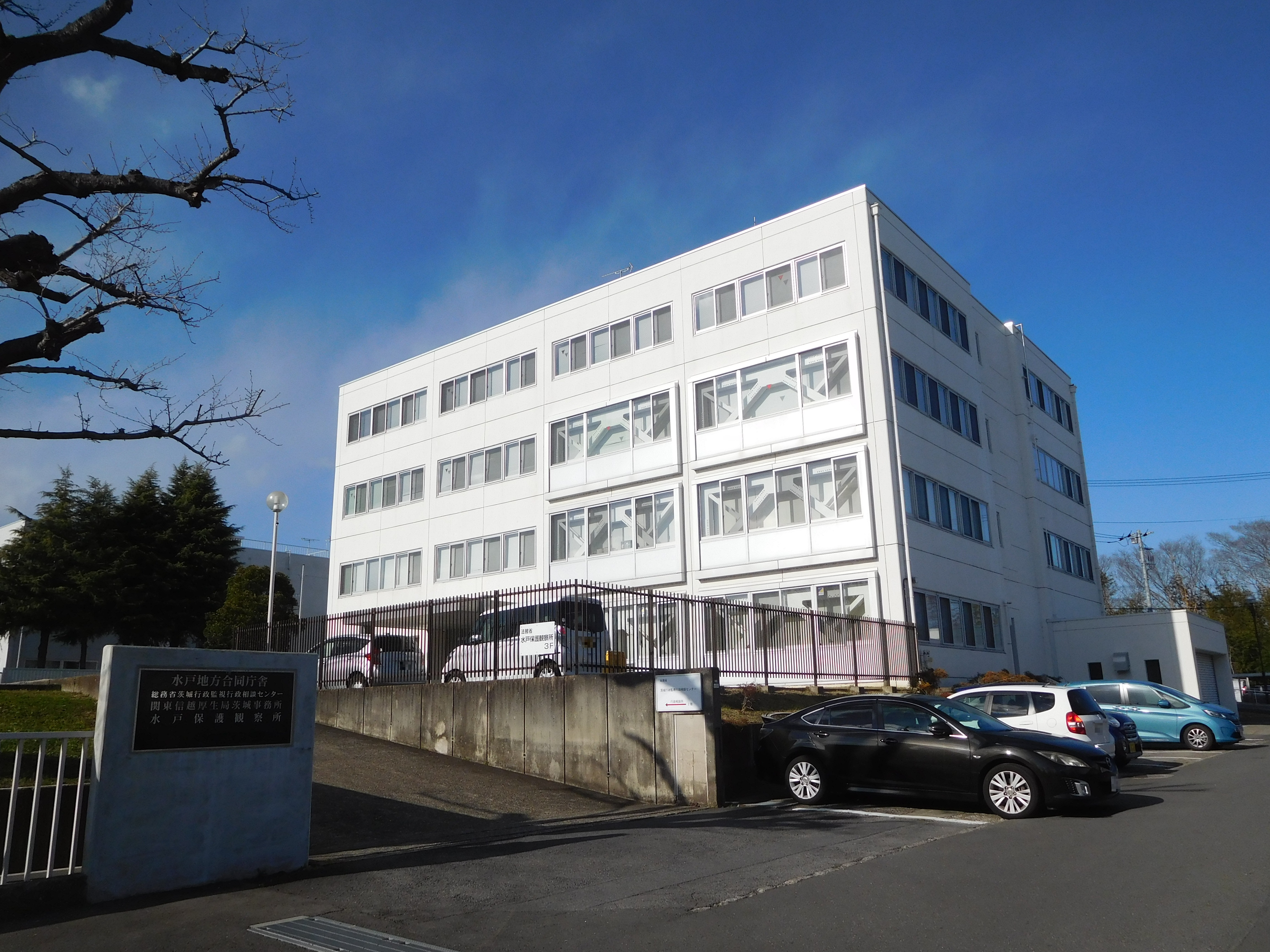 This is Mito Local Joint Government Building in Mito, Ibaraki, Japan. It has Mito Probation Office